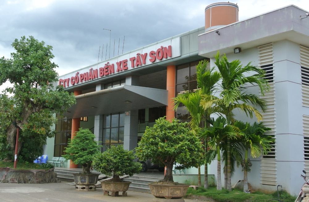 Tay son bus terminal. Tay Son district, Binh Dinh province, Vietnam